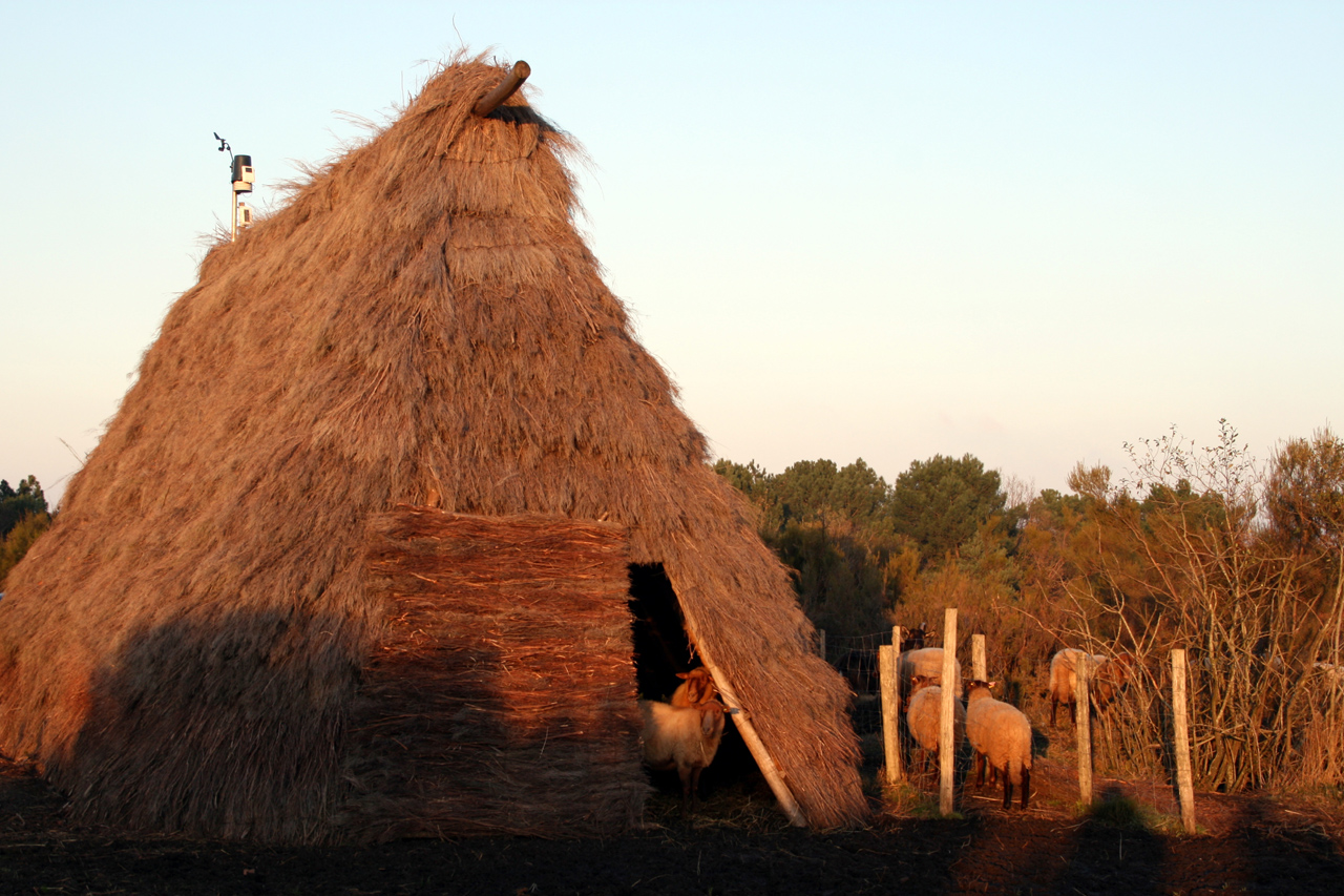 Sheepfold covered in heather in Réserve du Pinail at Vouneuil-sur-Vienne, Vienne.